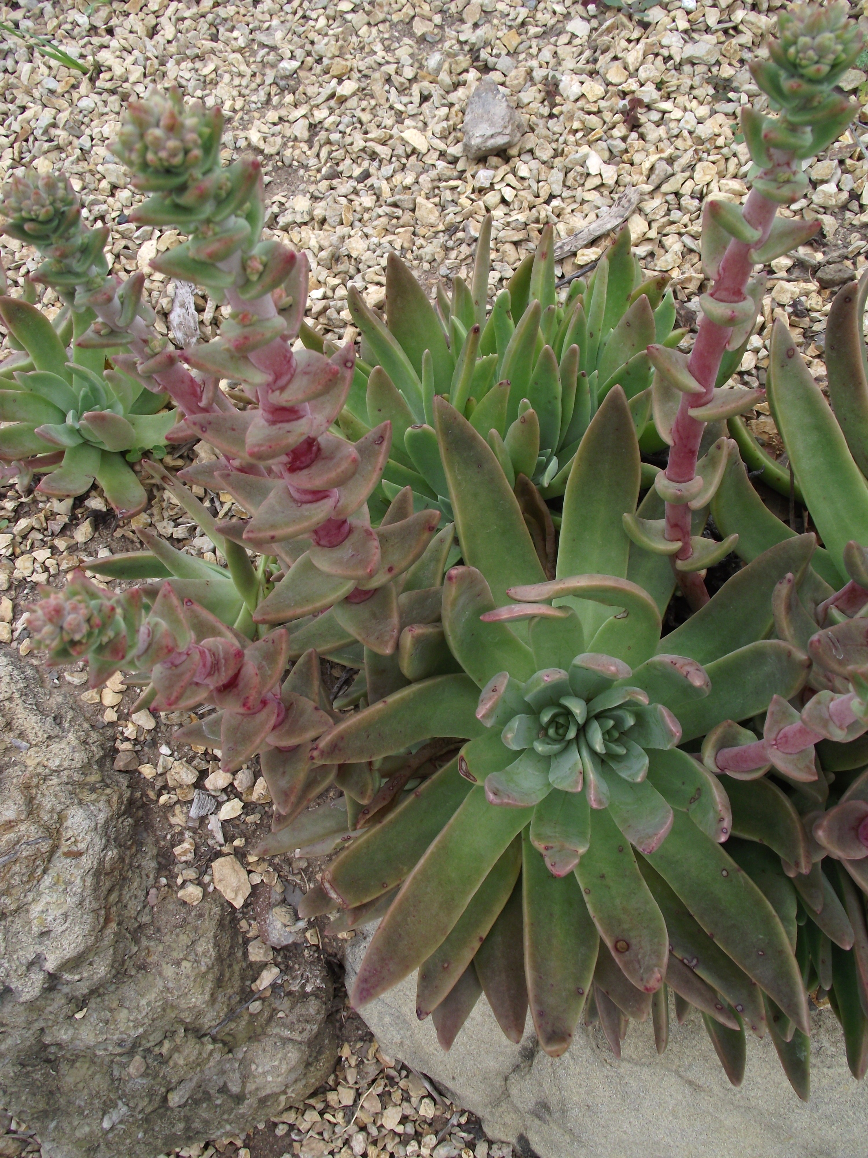 Dudleya palmeri at Santa Barbara Botanic Garden, Santa Barbara, California, USA. Identified by sign.